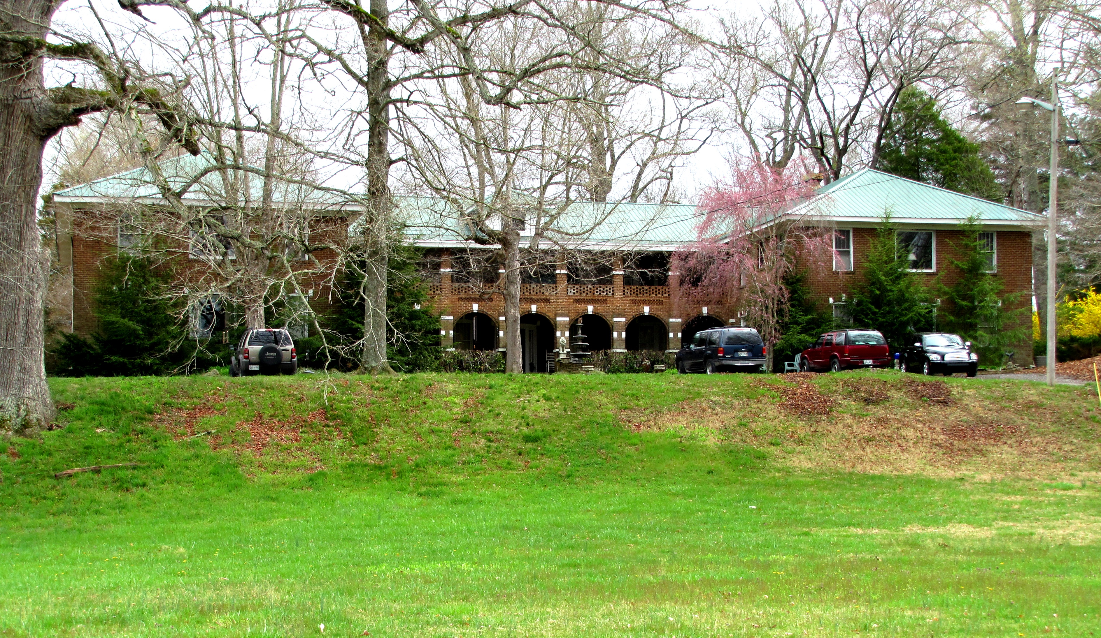 The Thomas House Bed & Breakfast, listed on the National Register of Historic Places as the Cloyd Hotel, in Red Boiling Springs, Tennessee, USA.